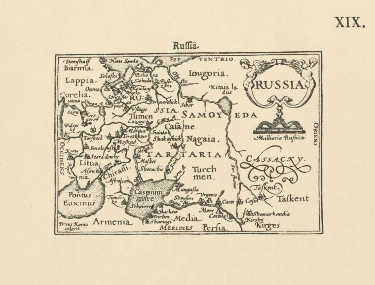 Image Title: Karta Rossii Dzhenkinsona iz atlasa izd. B.Langensom v Amsterdame v 1598g. Tekst str.10 Alternate Title: A map of Russia by Jenkinson from an atlas, published by B. Langens in Amsterdam in 1598y. Text p.10